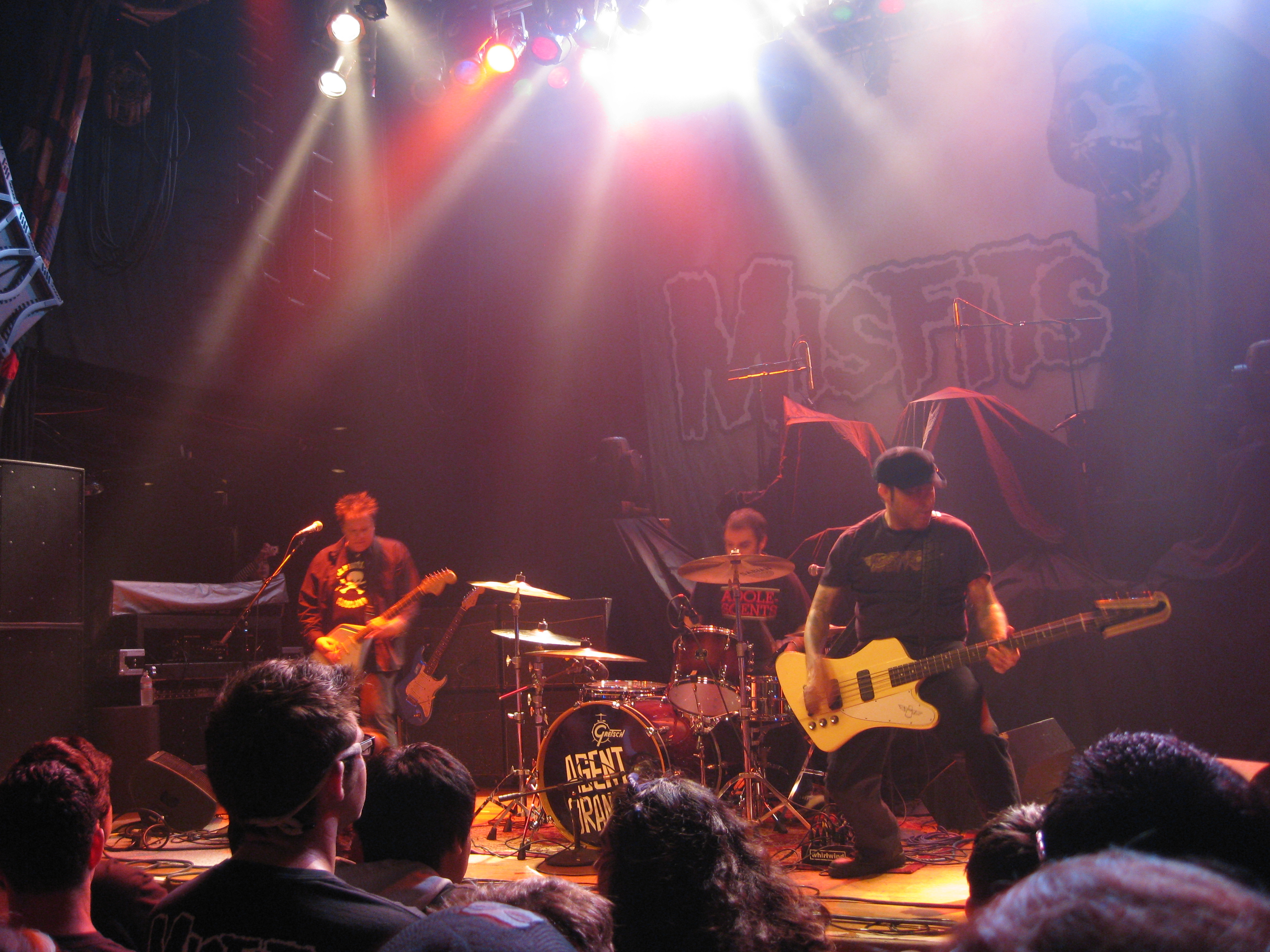 Agent Orange performing at the House of Blues in San Diego, California on October 3, 2011. Left to right: Singer/guitarist Mike Palm, drummer Dave Klein, and bassist Perry Giordano.